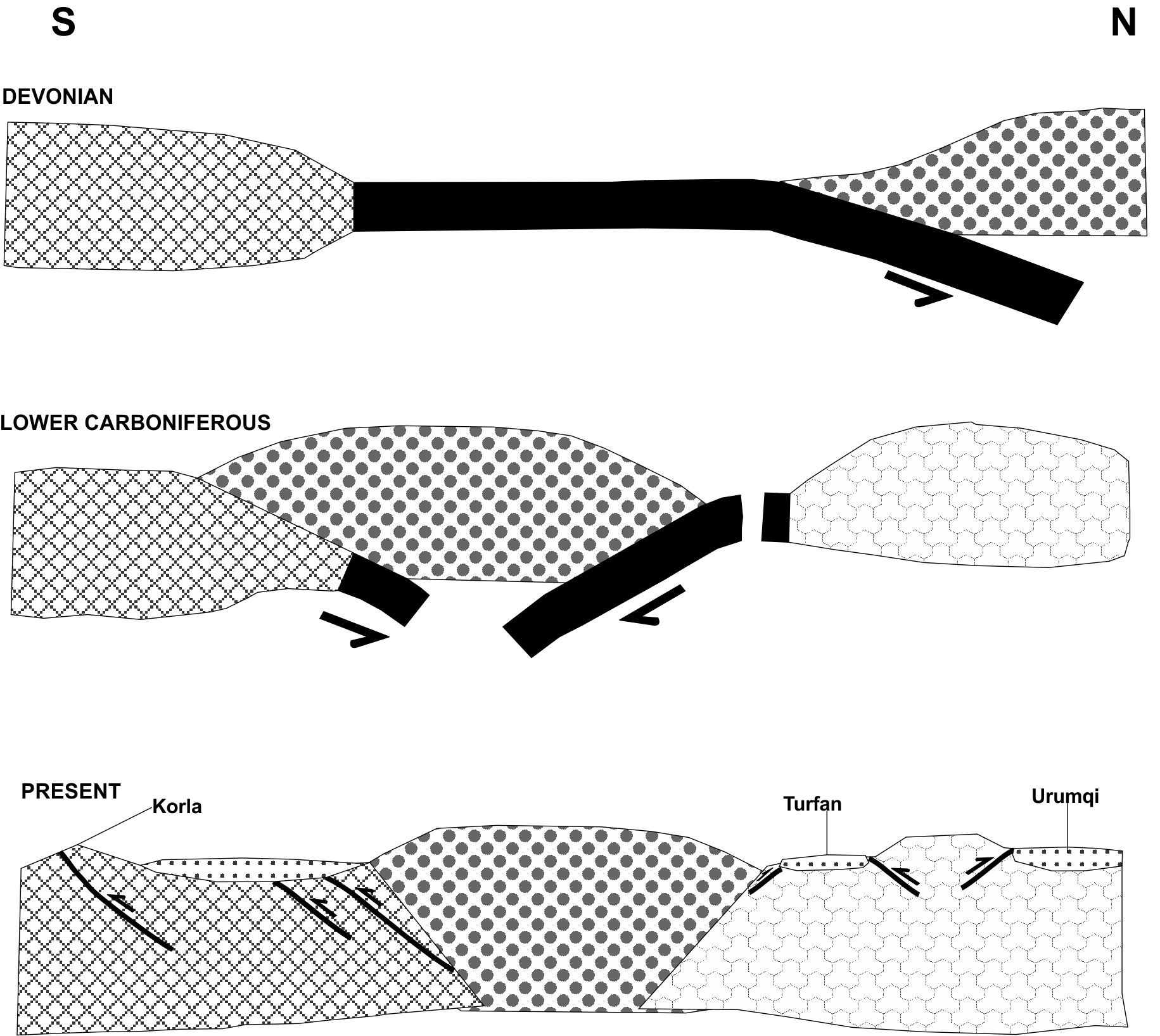 Tectonic evolution of the Tian Shan in cross section. Oceanic crust is shown in black. The patterned areas are representing continental blocks: cross hatching = Tarim Block (Southern Tian Shan), large dots = Central Tian Shan, triradiate elements = Northern Tian shan, small dots = sedimentary basins. Modified after Windley et al. (1990)[1] and Allen et al. (1993).[2]